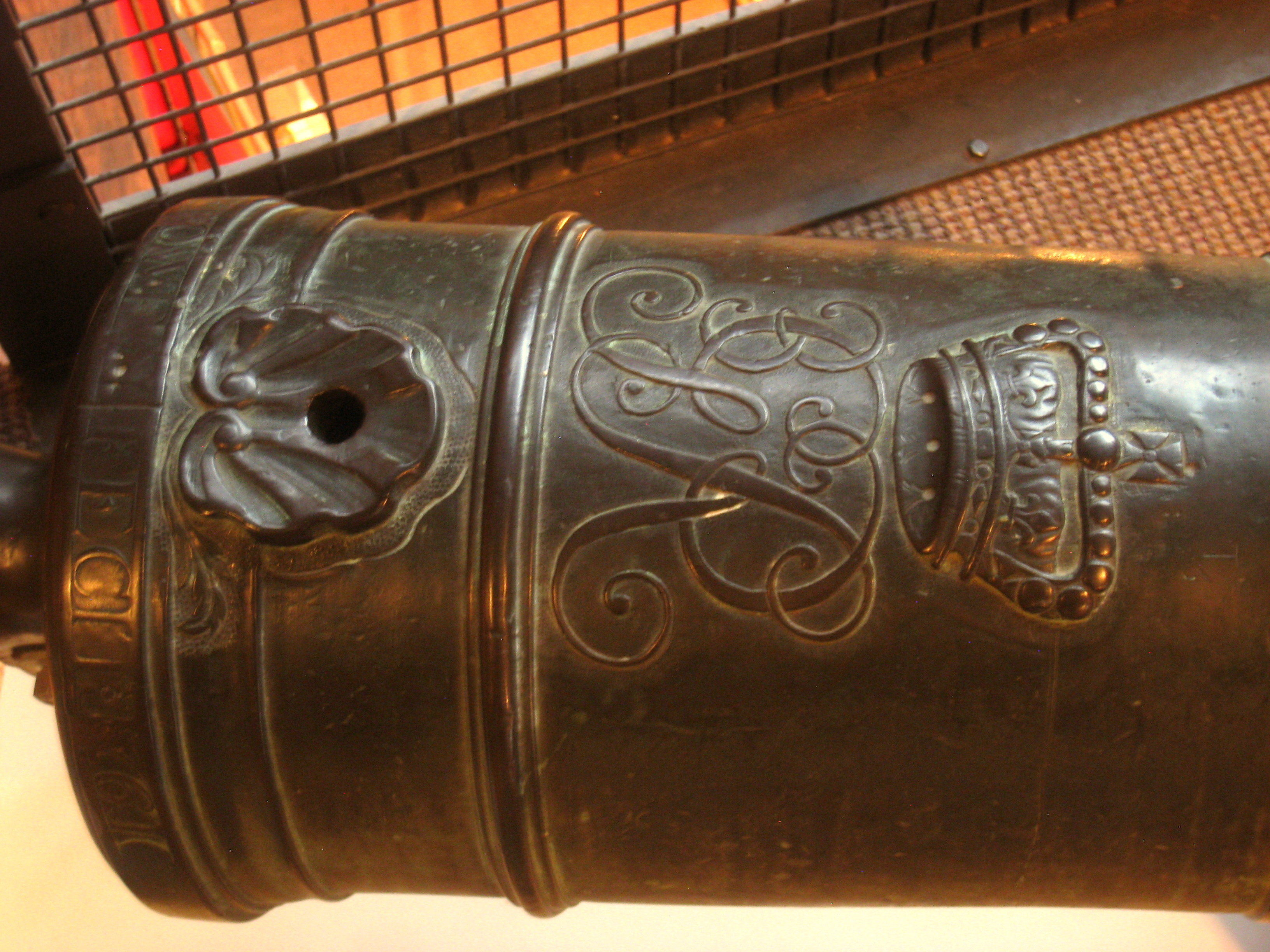 Cannon from the Allegheny Arsenal Monument, captured from the British at the Battle of Saratoga, 1777. Exhibit in the Senator John Heinz History Center, 1212 Smallman Street, Pittsburgh, Pennsylvania, USA. There were no restrictions on photography in the museum collections.